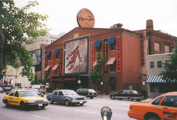 picture of the front of michael jordans restaurant in chicago